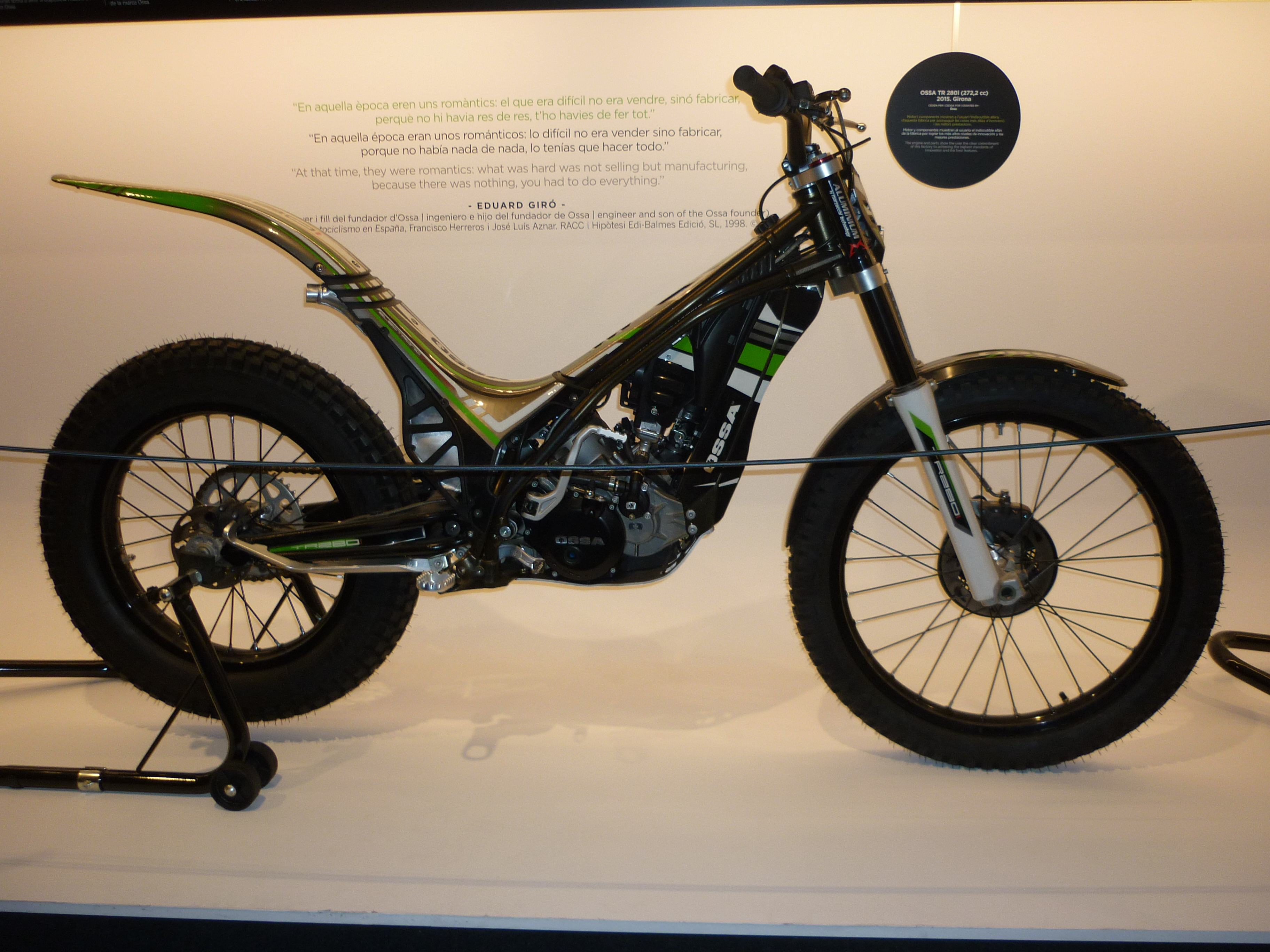 Ossa TR 280i (272,2 cc), 2015